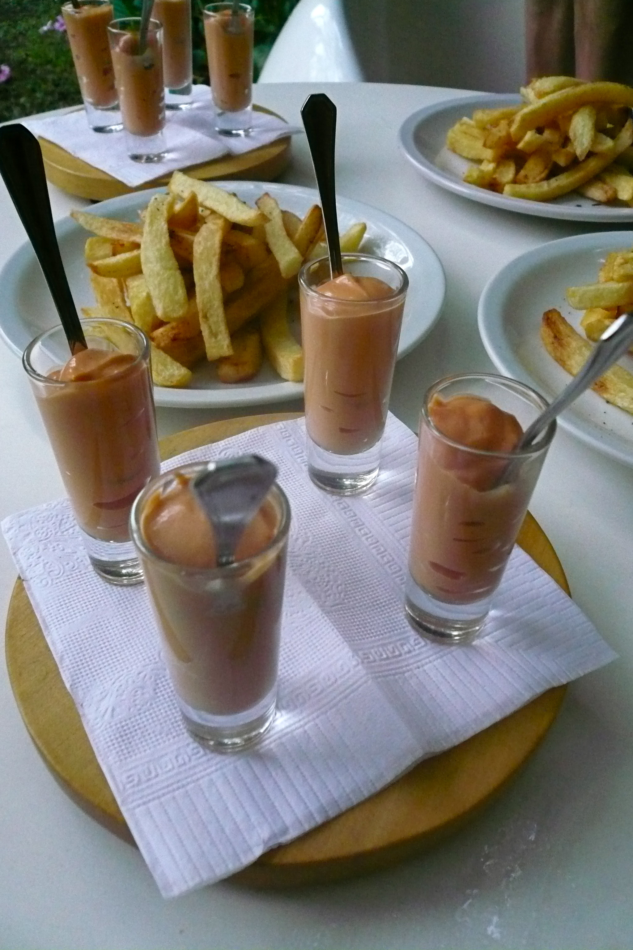 Salsa golf (literally golf sauce) is a cold sauce of somewhat thick consistency, common in Argentina. There are several recipes, but the sauce is always mostly mayonnaise with a tomato-based sauce like ketchup. Seasoning is added to give the sauce an Argentine flavor, such as pimento, oregano, and cumin. Salsa golf is used to dress salad, meat, and other food, and it is the main ingredient in a typical Argentine dish called "palmitos en salsa golf."